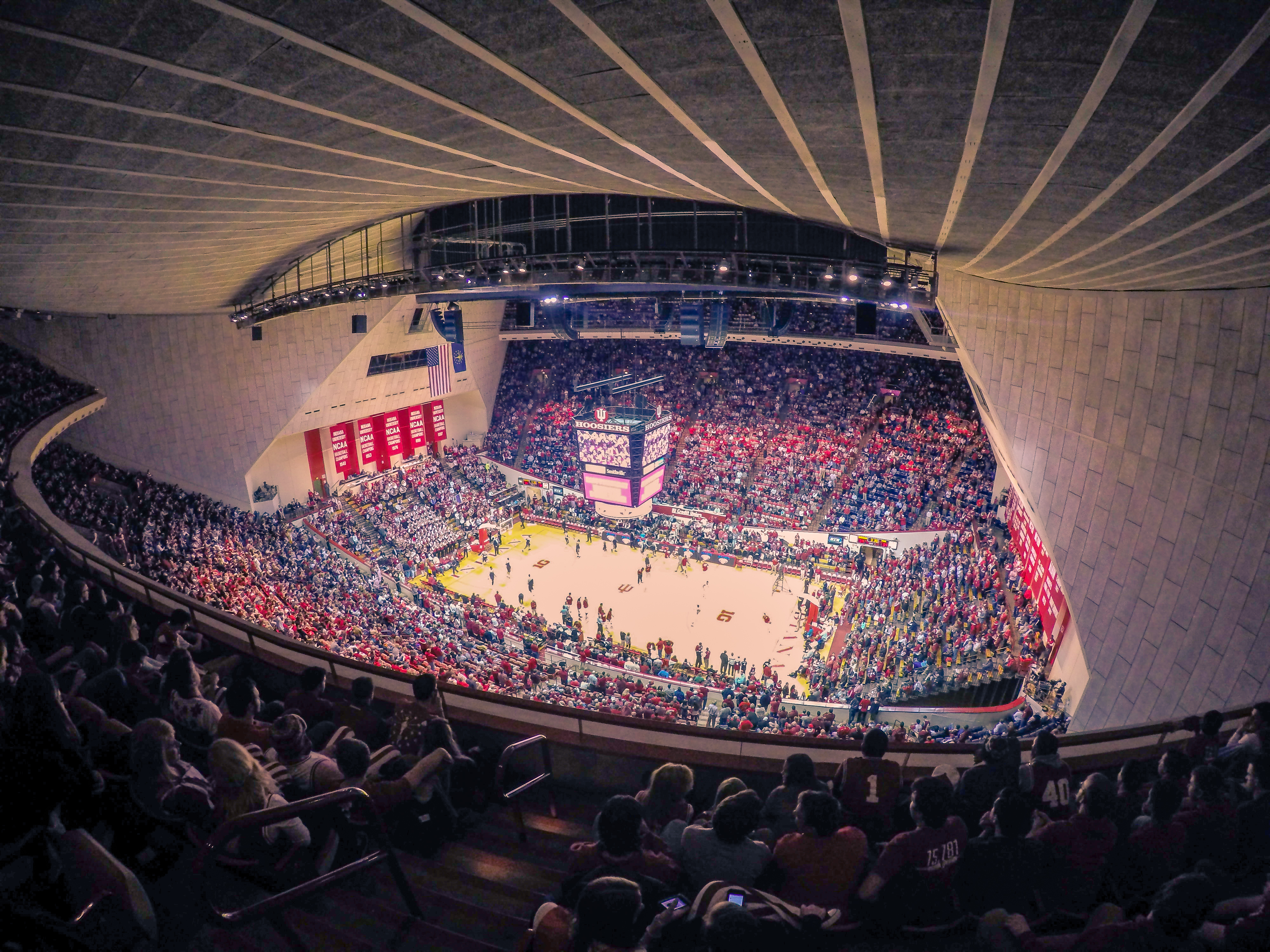 section mm, row 105, seat 4 - the best seat at assembly hall. bloomington, in